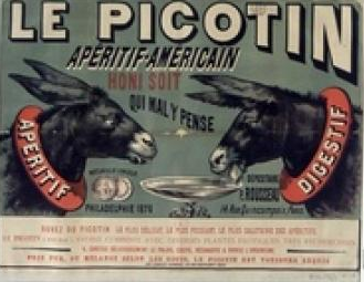 Poster by Benjamin Rabier "Le Picotin". Before 1939